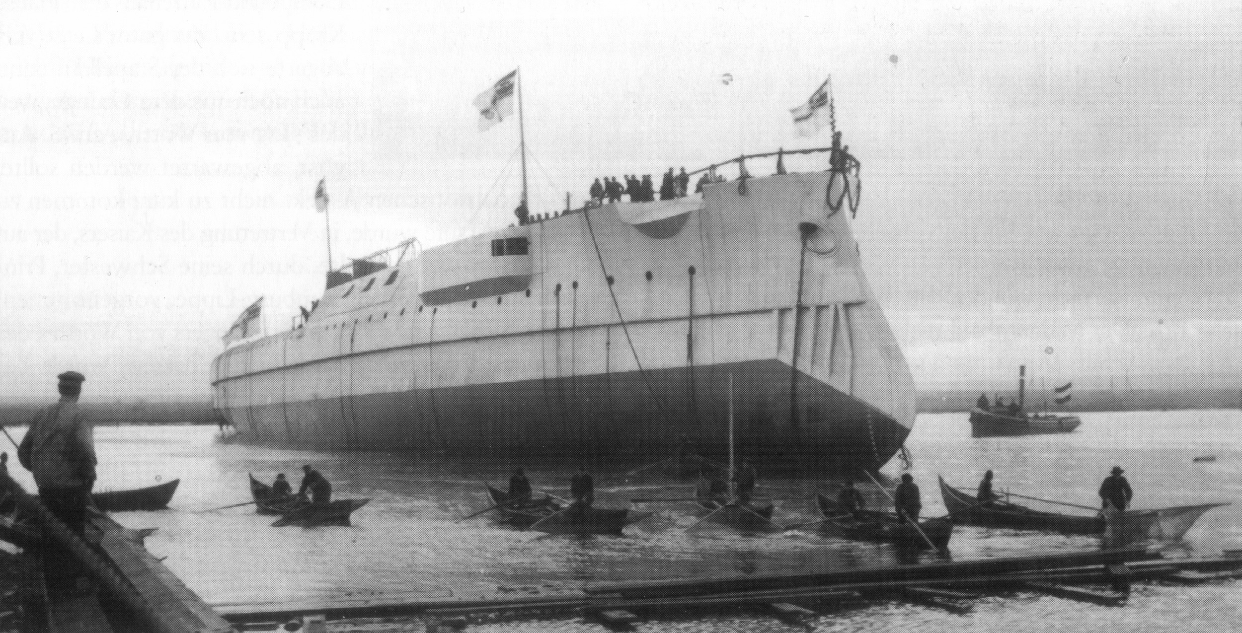 The German battleship SMS Weißenburg after launching.